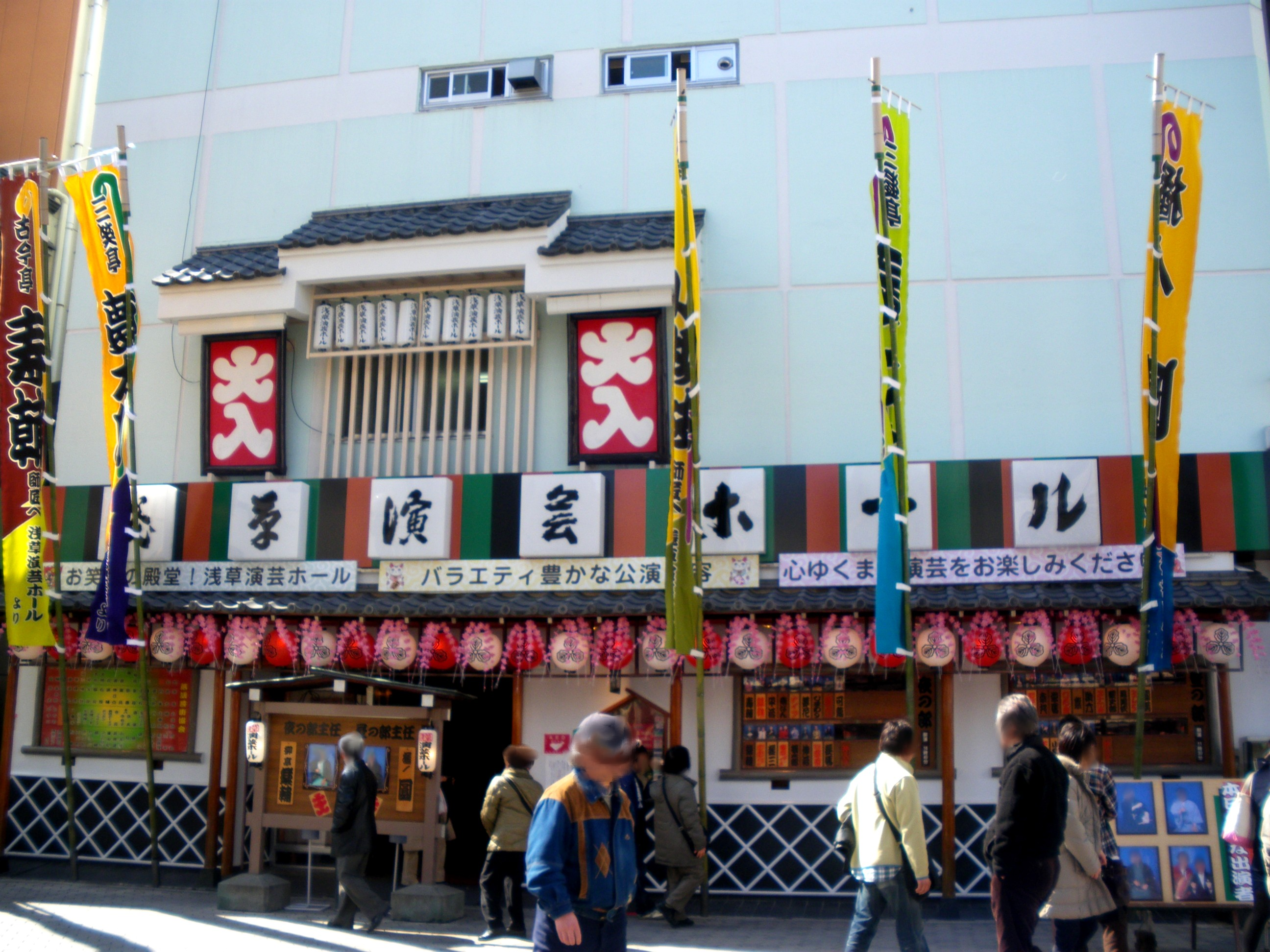 A photo of Asakusa Engei Hall. Asakusa Engei Hall is a famous vaudeville theater in Tokyo. It holds many rakugo events.